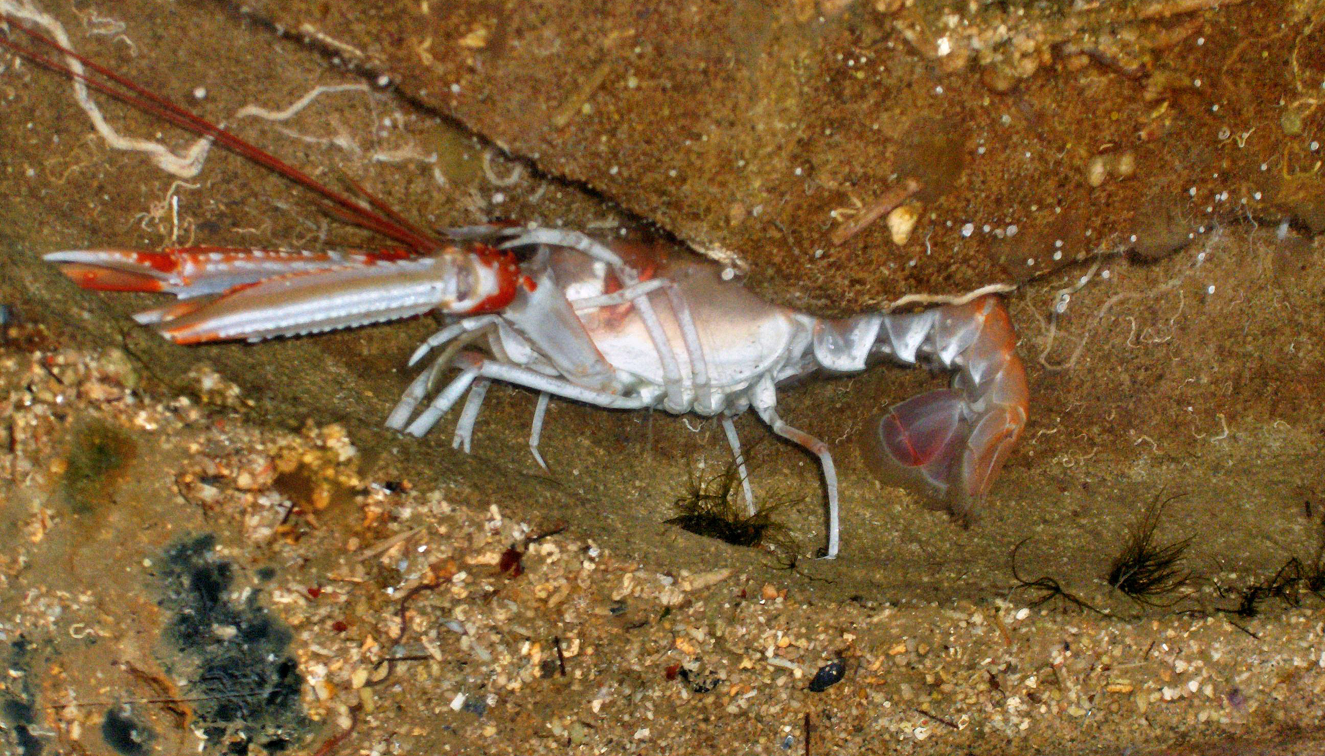 Norway lobster (Nephrops norvegicus); Musée Océanographique de Monaco